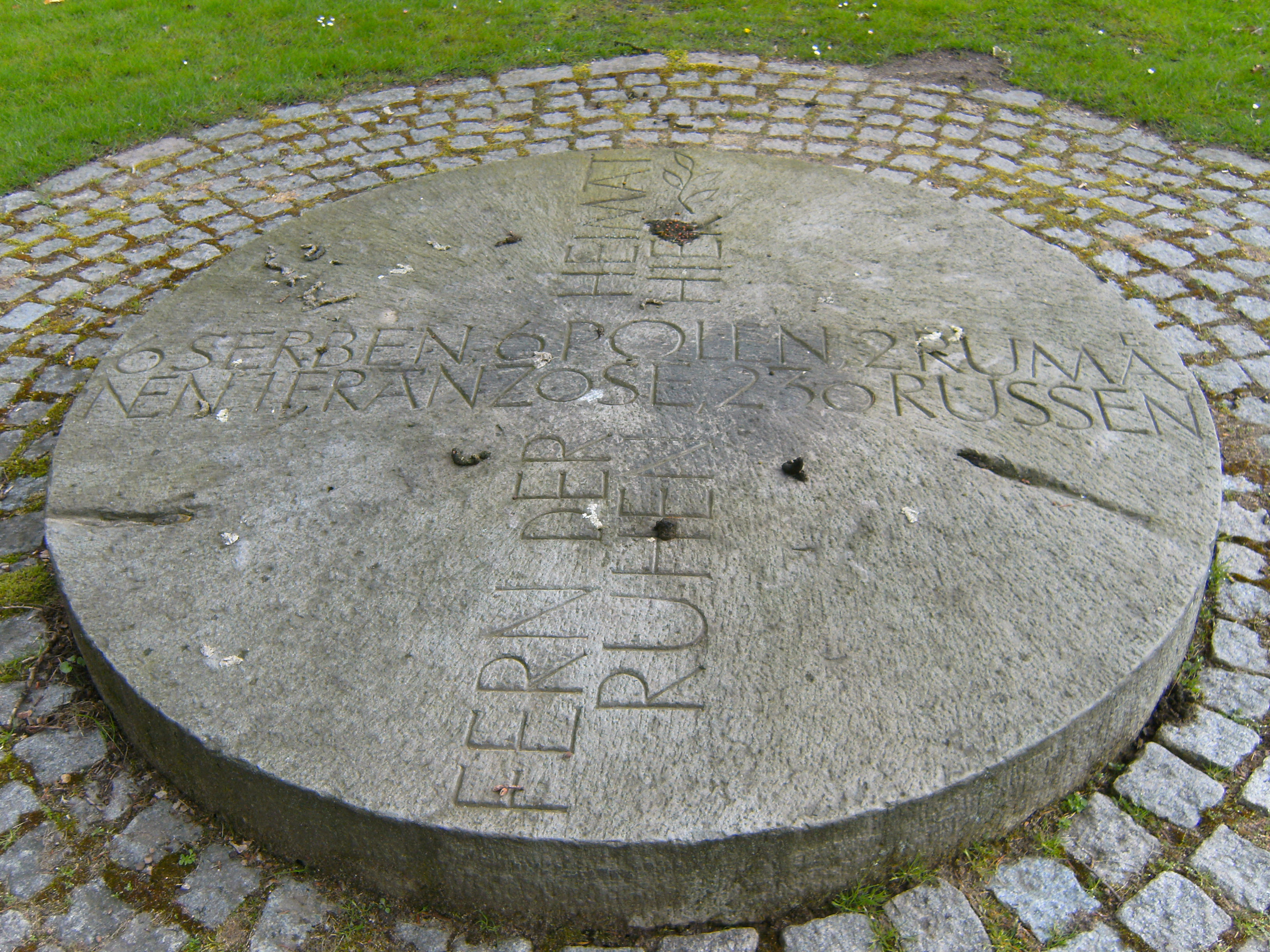 Deutsche Kriegsgräberstätte Hamburg-Ohlsdorf (German military cemetery). Area: Graves of world war I, memorial stone.